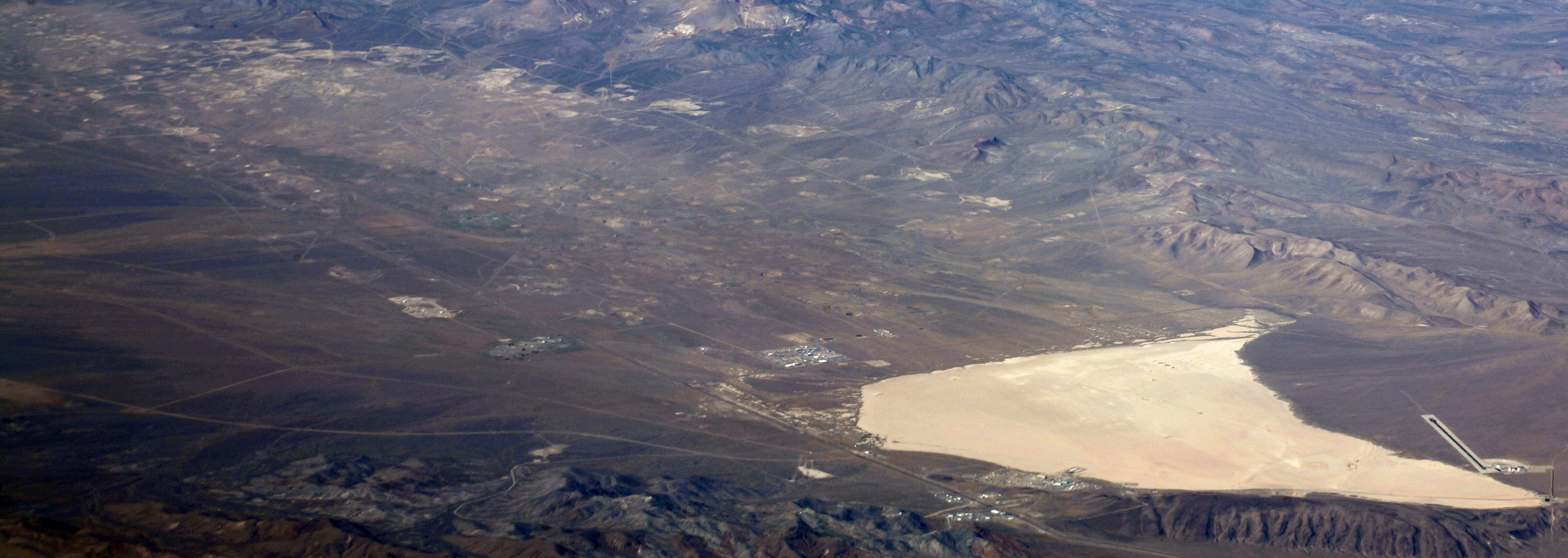 Yucca Flat, dimpled with subsidence craters where the surface of the land has caved in on giant hollow caves underground, where atom bomb blasted instant spheres of empty space below the alluvial floor of the Nevada desert. On the right, Yucca Lake, with its air field. This is the heart of the Nevada Test Site, where much of the Cold War was waged.